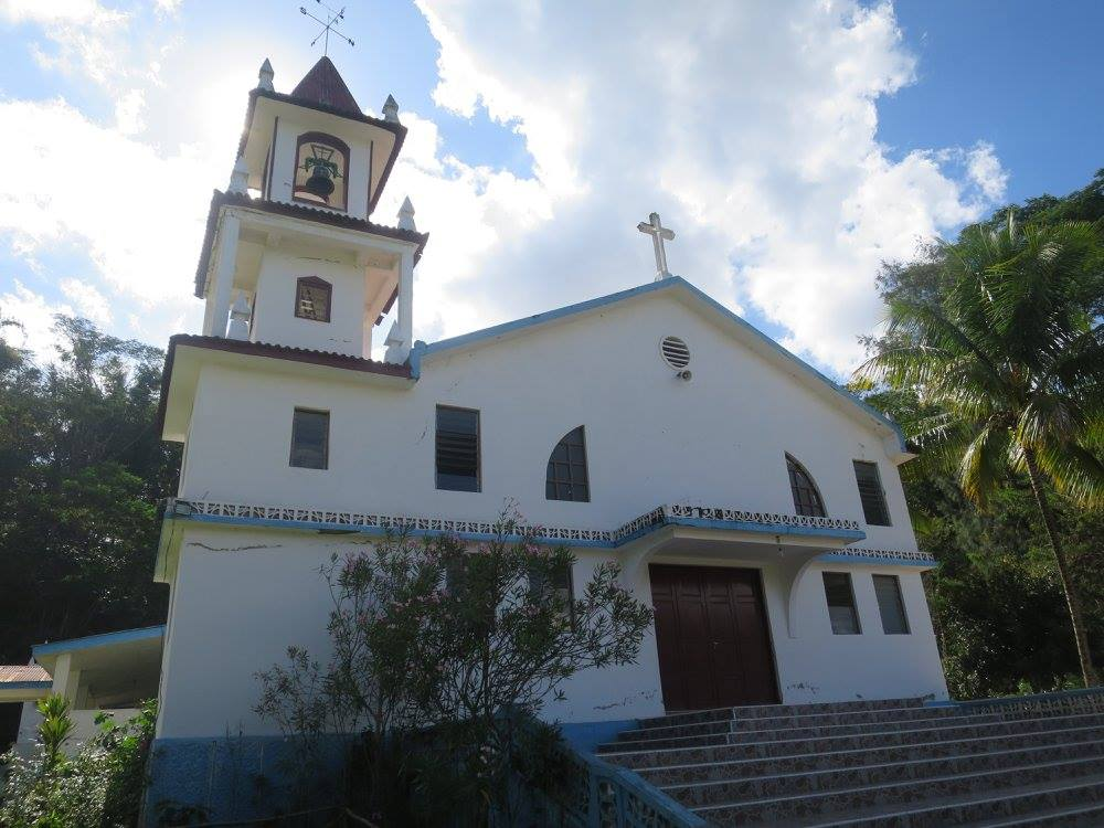 Church of Aileu